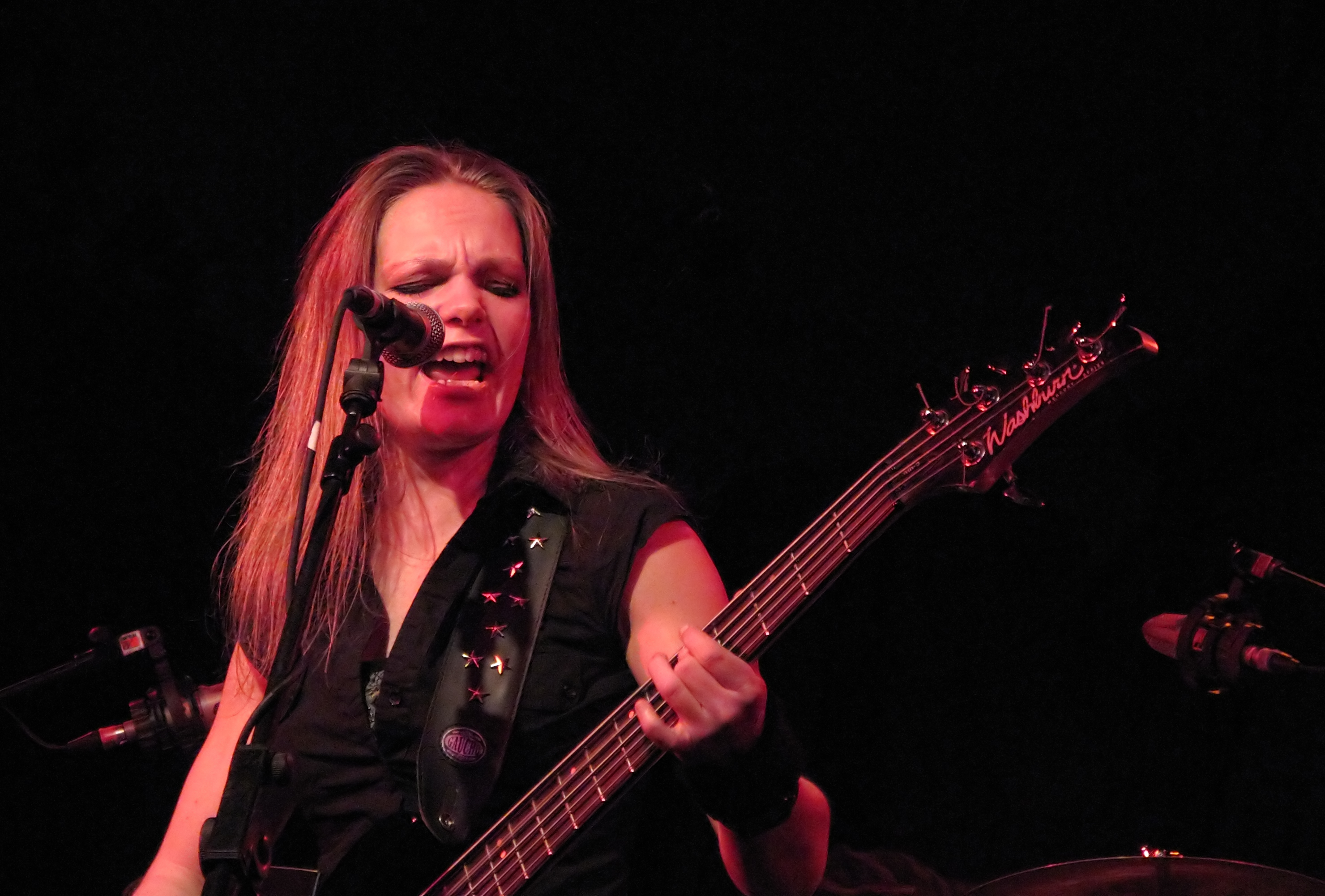 Ida Haukland (Triosphere) in concert.